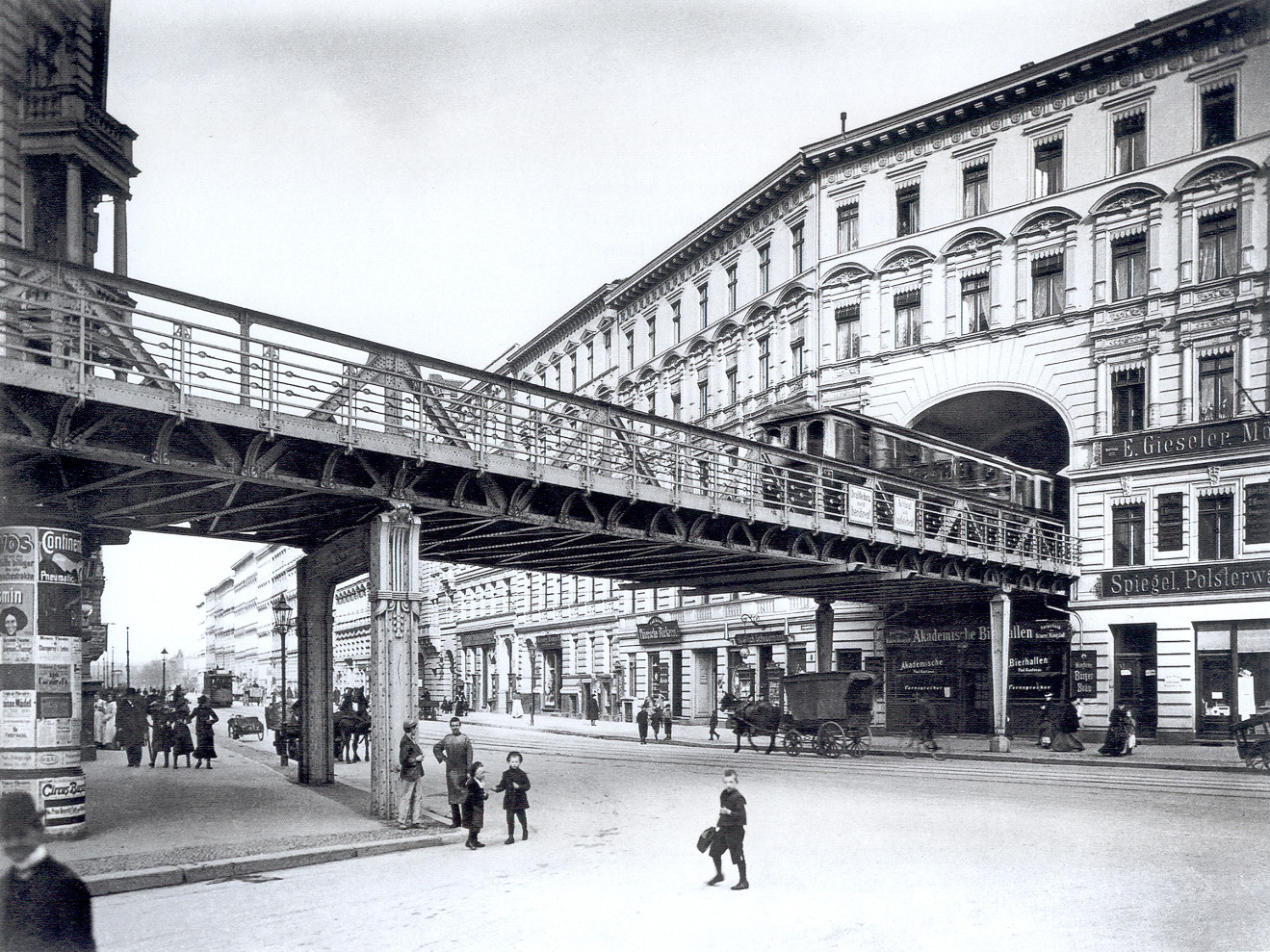 See File:Dennewitzstraße Berlin 2011.jpg for a 2011 photo from the same viewpoint.